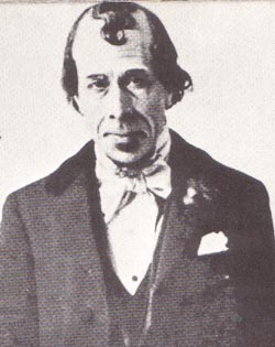 George Arliss in the 1911 Broadway production of Disraeli.